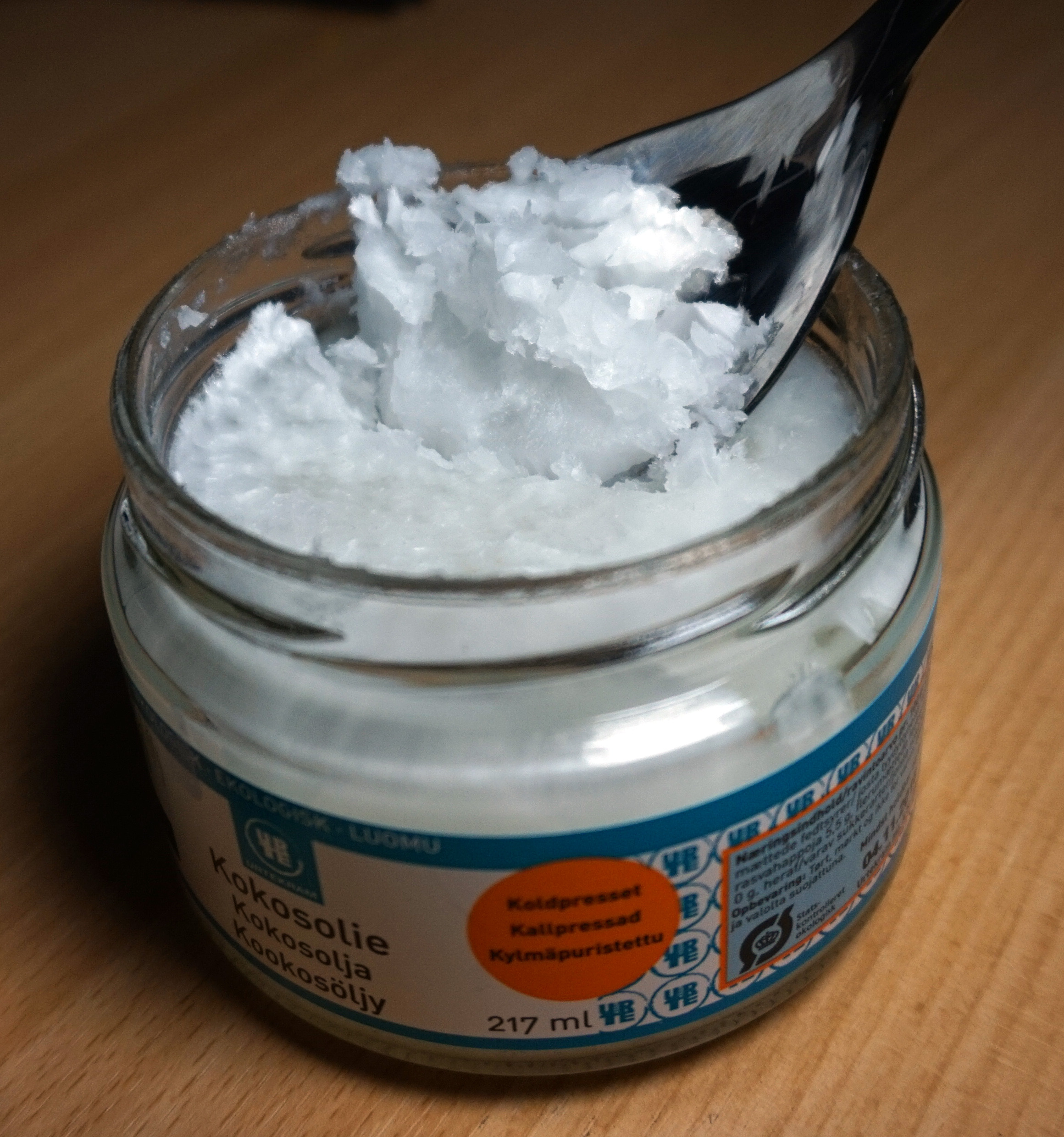 Coconut oil as non-liquid state in room temperature.